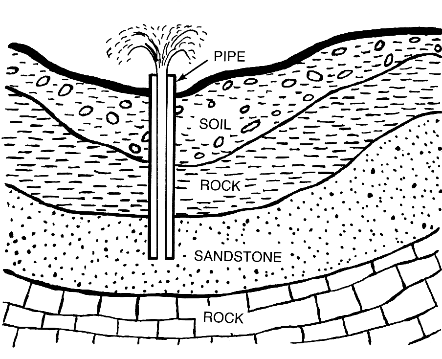 line art drawing of an artesian well.